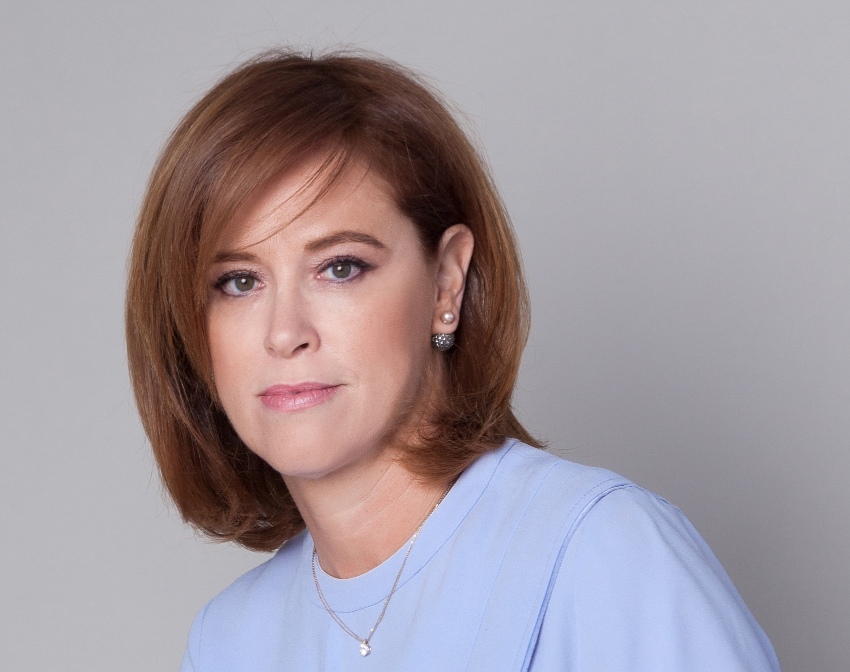 Rakefet Russak Aminoach